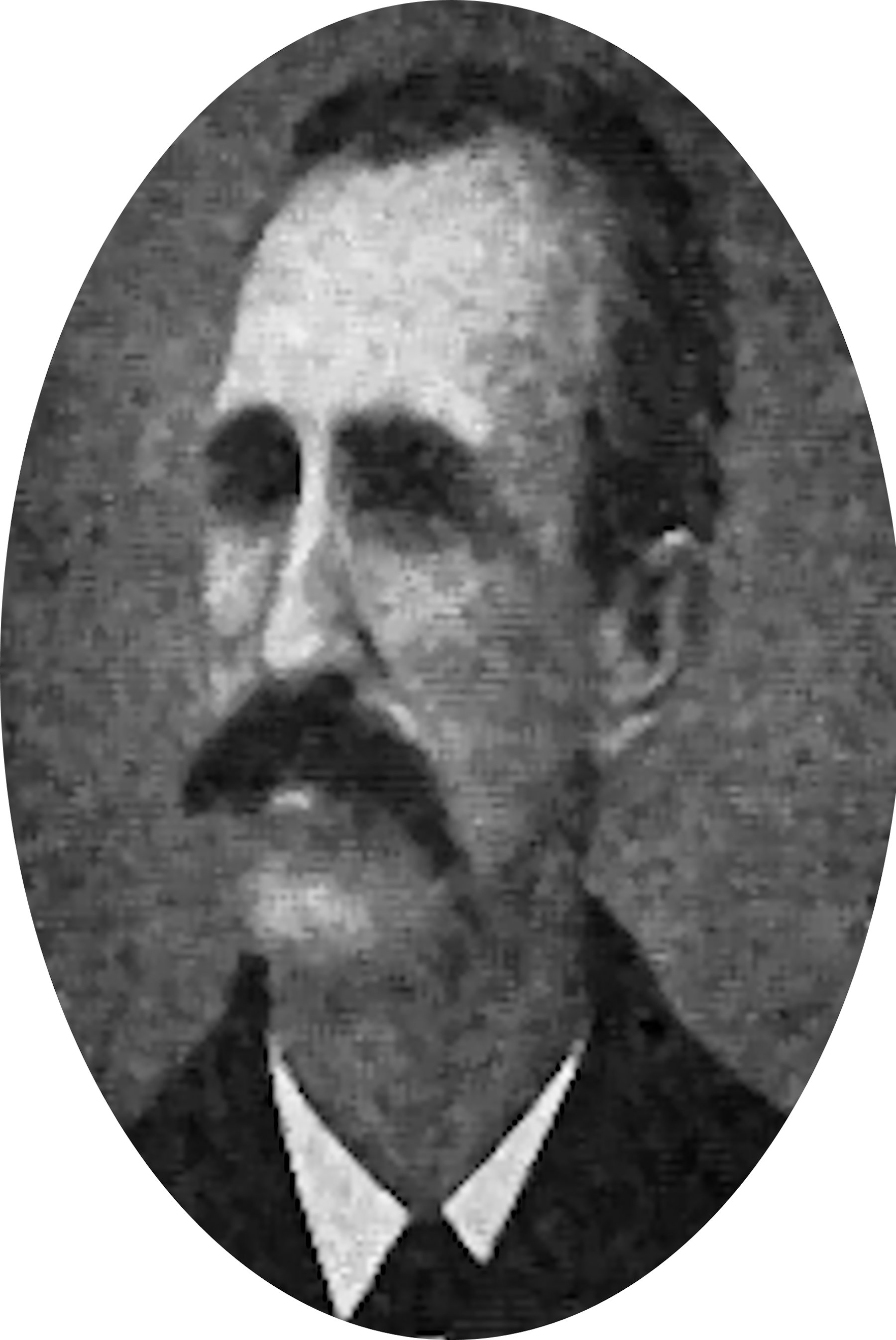 Medal of Honor winner Elbridge Robinson